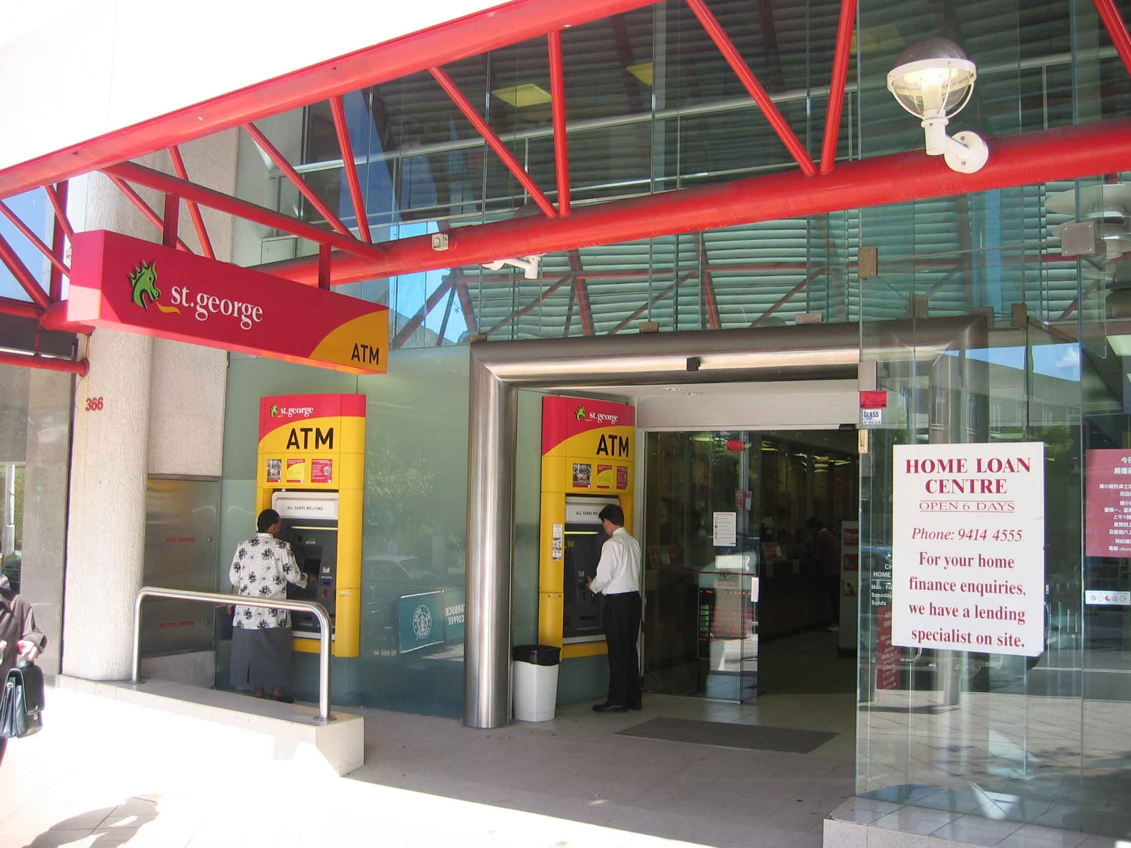 St. George Bank branch in Chatswood, New South Wales, Australia.